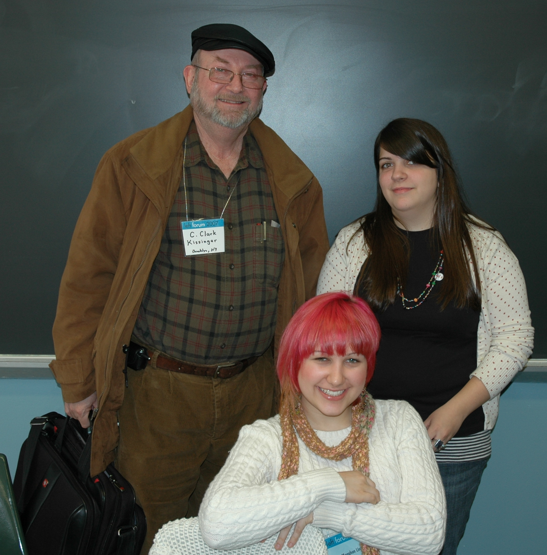 Former SDS National Secretary C. Clark Kissinger with some young member of the new Students for a Democratic Society. This shot was taken at the Left Forum in New York City on March 11, 2007.